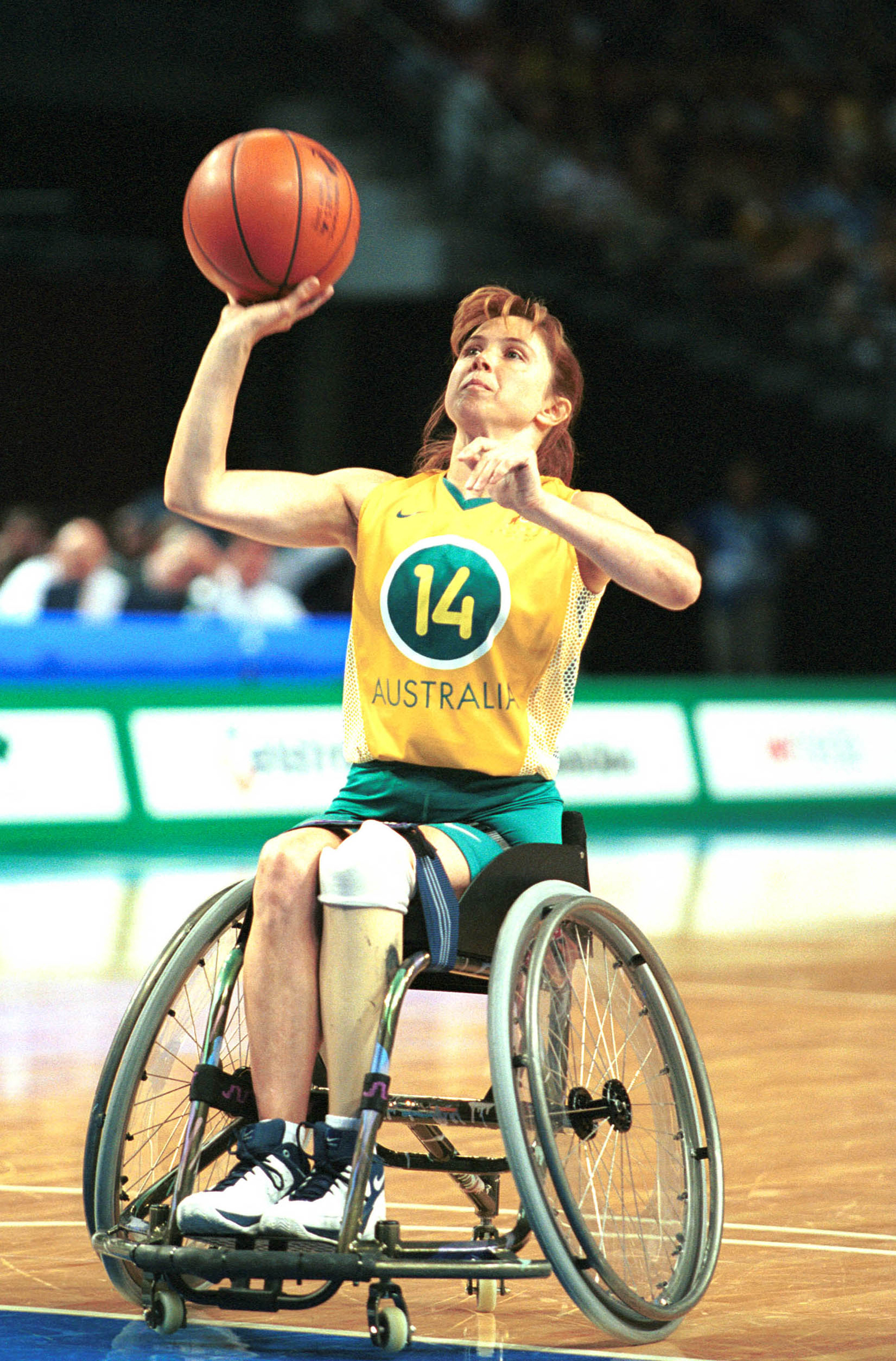 Australian wheelchair basketballer Paula Coghlan aims her shot during 2000 Sydney Paralympic Games match